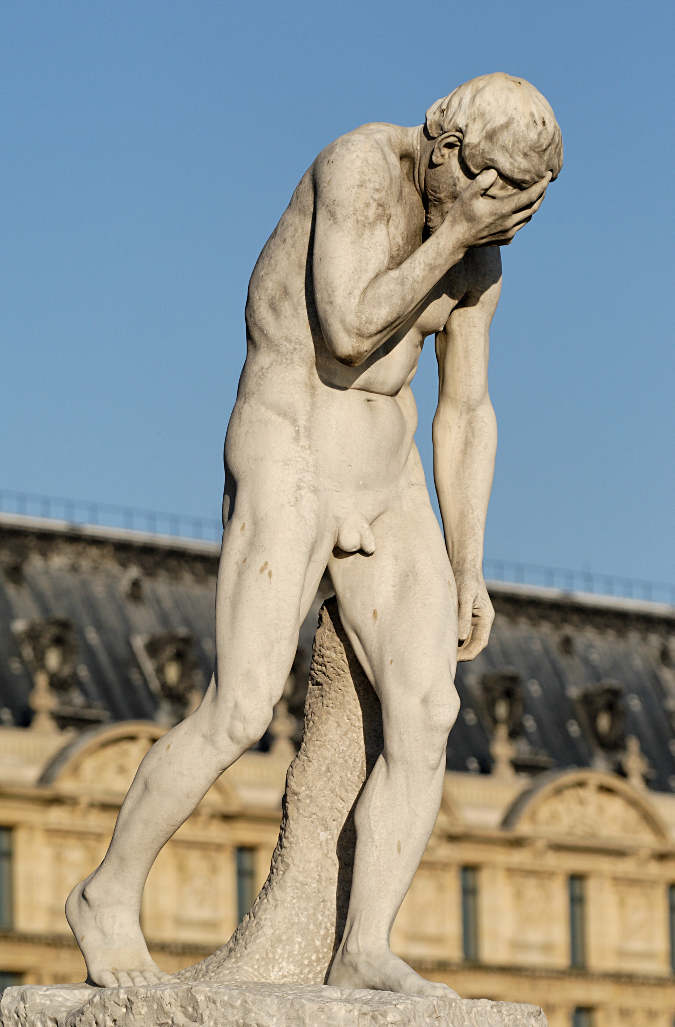 Cain by Henri Vidal, in the Tuileries Gardens, Paris, 1896.